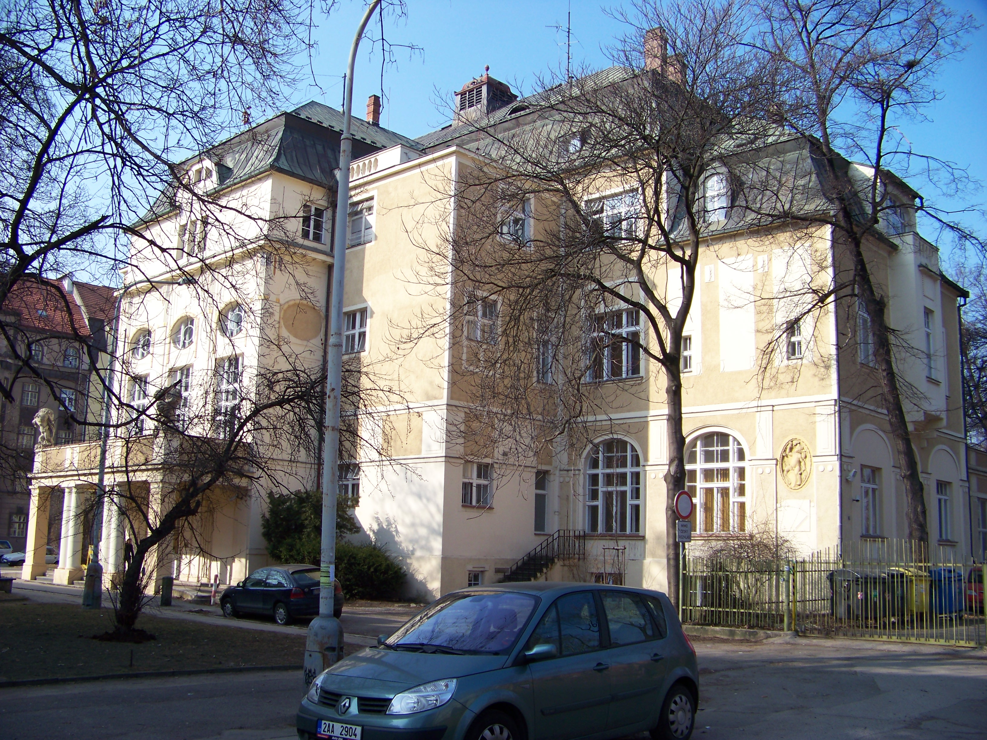 Prague-Karlín, the Czech Republic. National House in Karlín, built in 1911, now a radio studio.